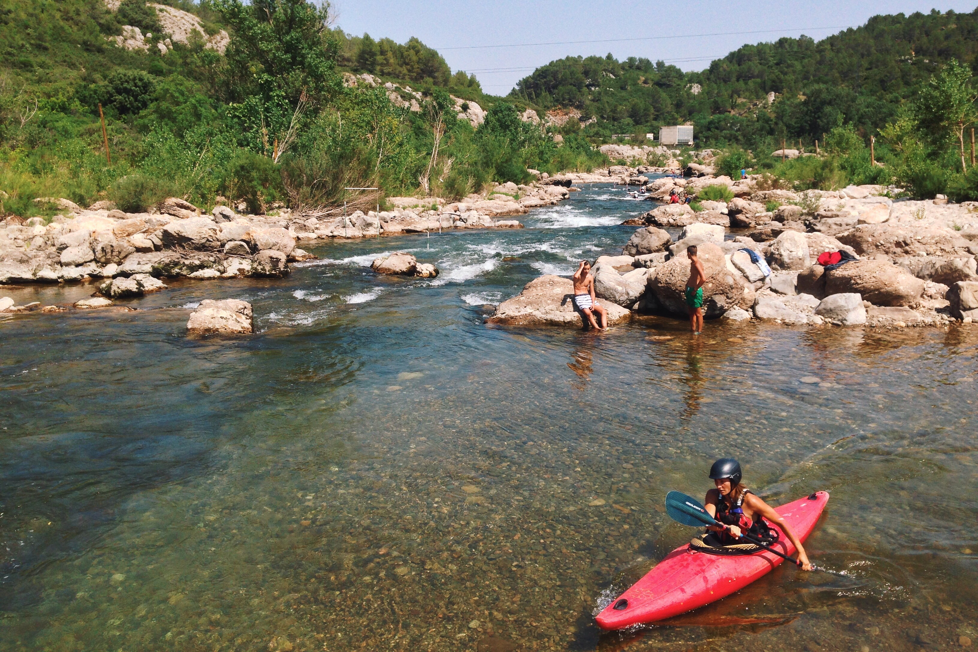 Processed with VSCOcam with k2 preset